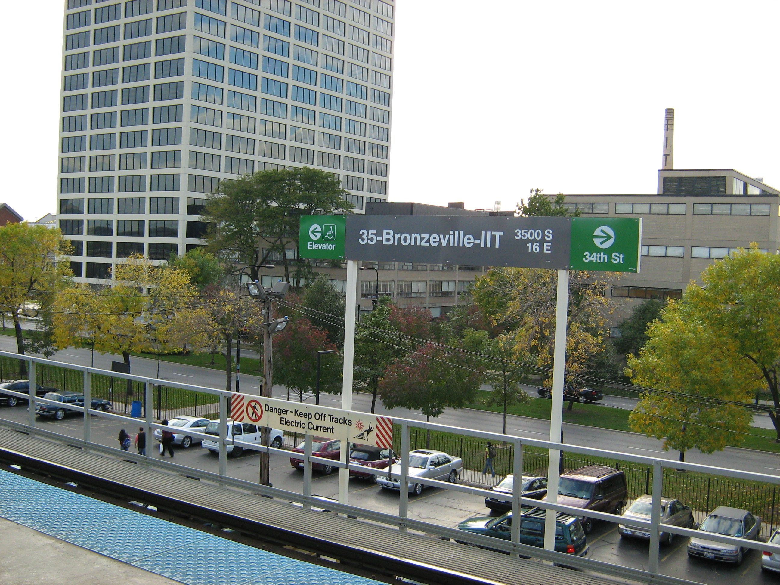 35th-Bronzeville-IIT